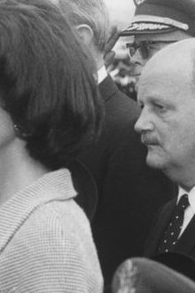 Ambassador Robert Borden Reams